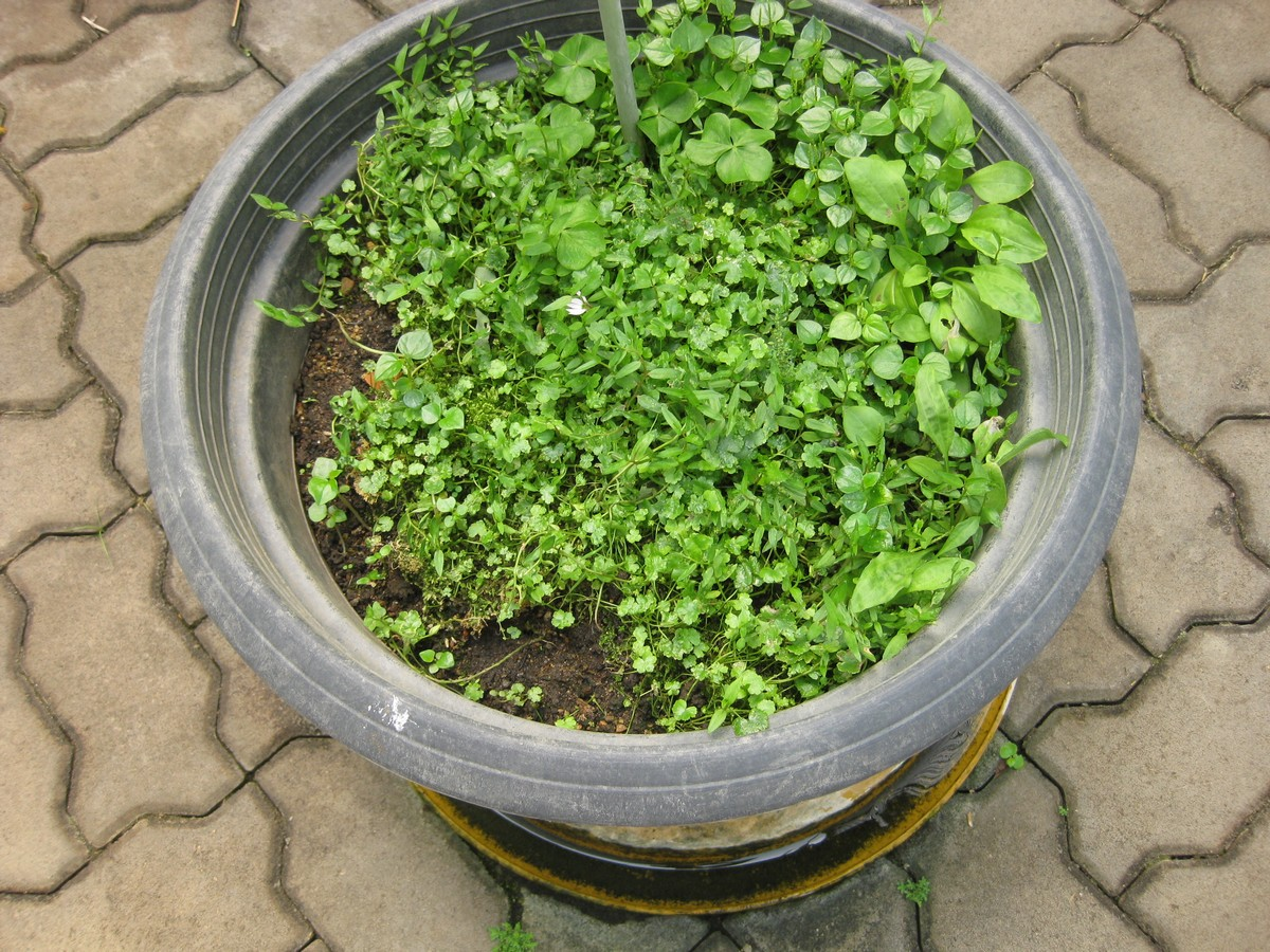 Photographed at the Queen Sirikit Botanic Garden (Chiang Mai Province, Thailand) in March